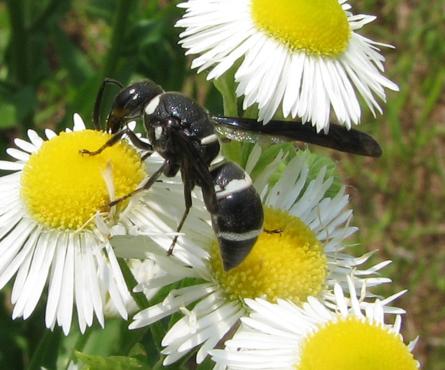 Potter wasp, Euodynerus megaera, female. Horsham Trail, Montgomery County, Pennsylvania, USA.